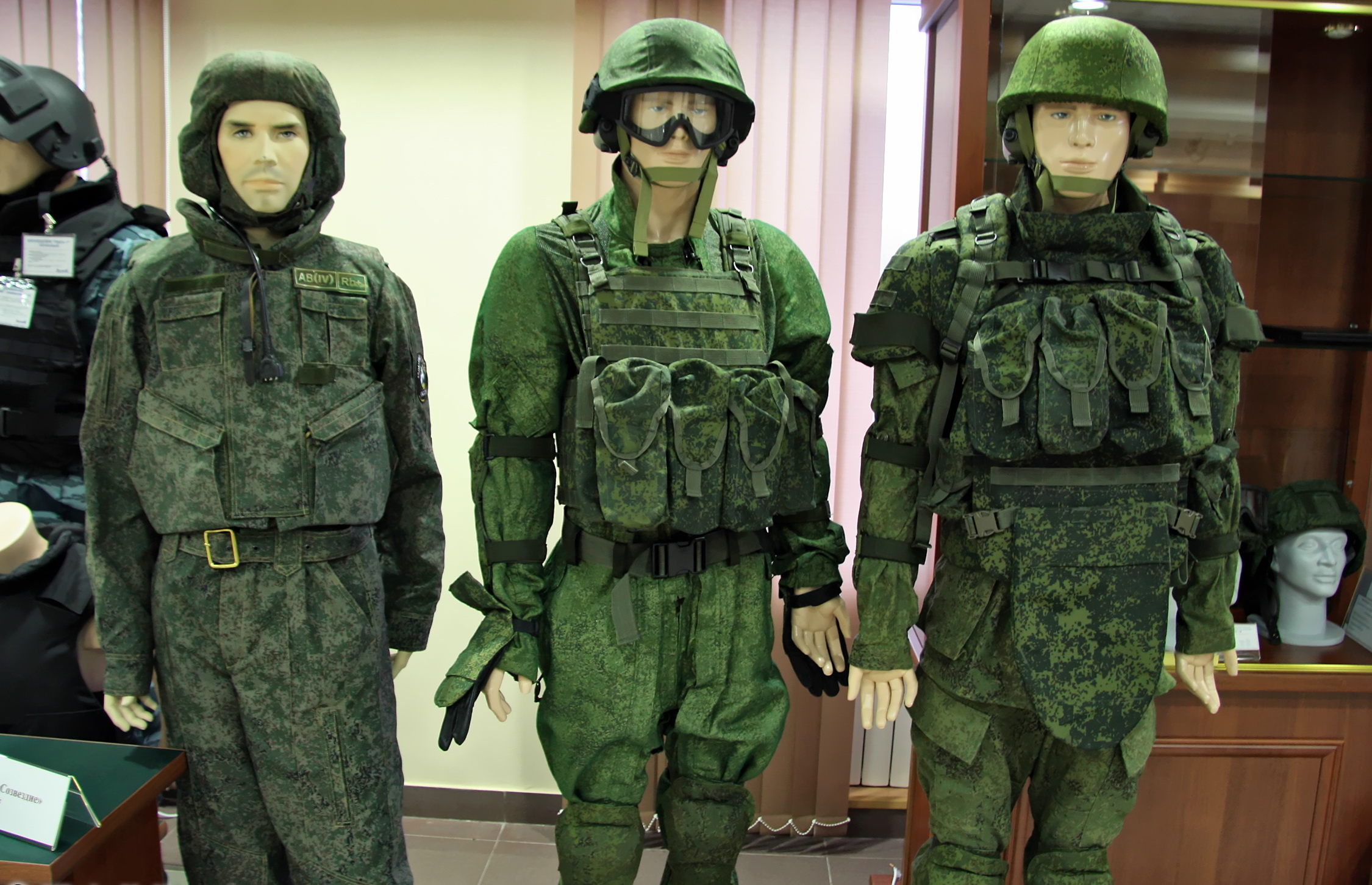 6B15 combat vehicles crew protective suit, 6B21 Permyachka combat suit, one of the variants of Barmitsa combat suit